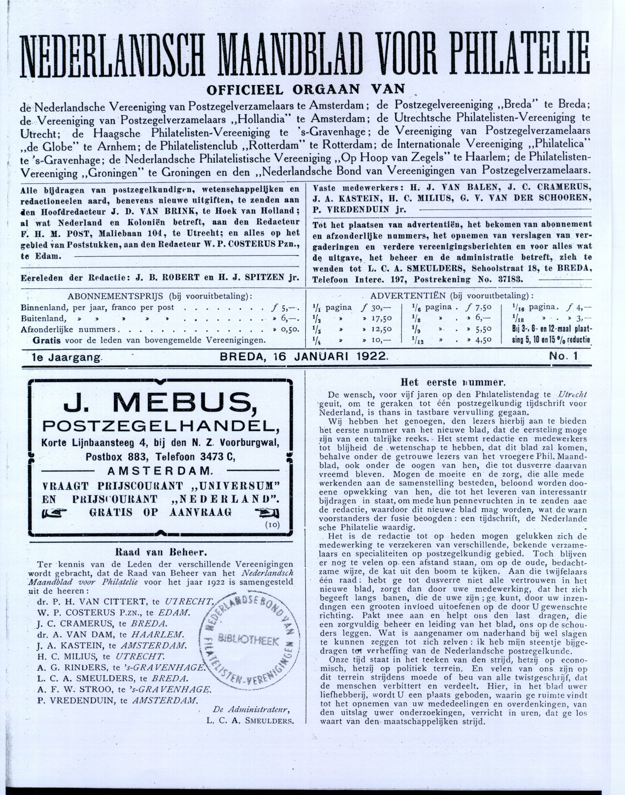 Old Dutch philatelic magazine